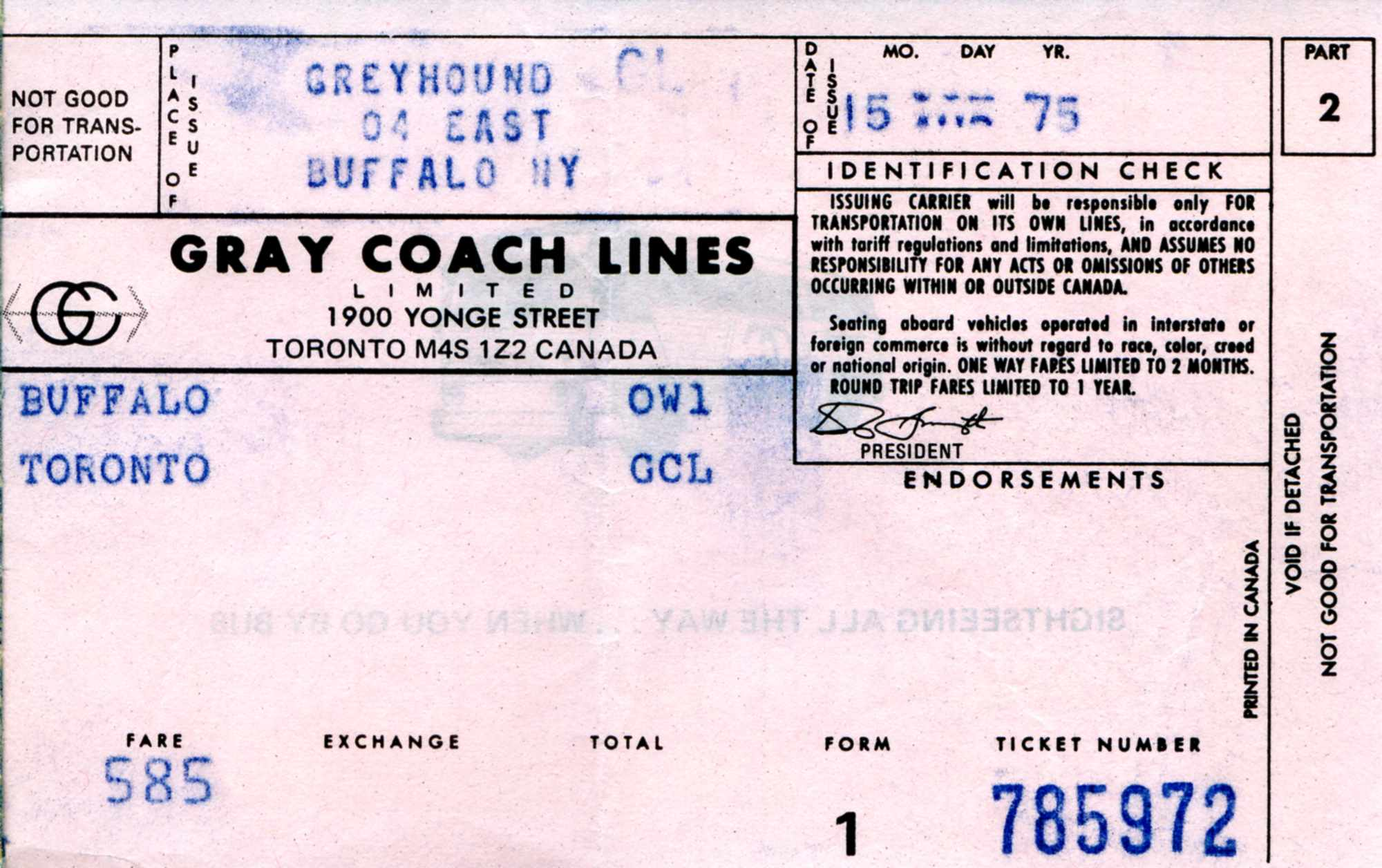 Canada, Gray Coach inter-city bus ticket passanger’s copy from Buffalo to Toronto issued on August 15, 1975.